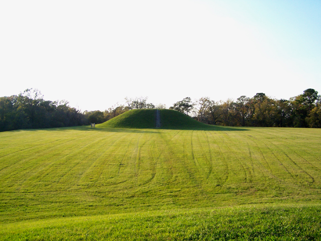 A photo taken on top of Emerald Mound Site, from the top of one of the remaining 2 top mounds, showing the other remaining top mound.